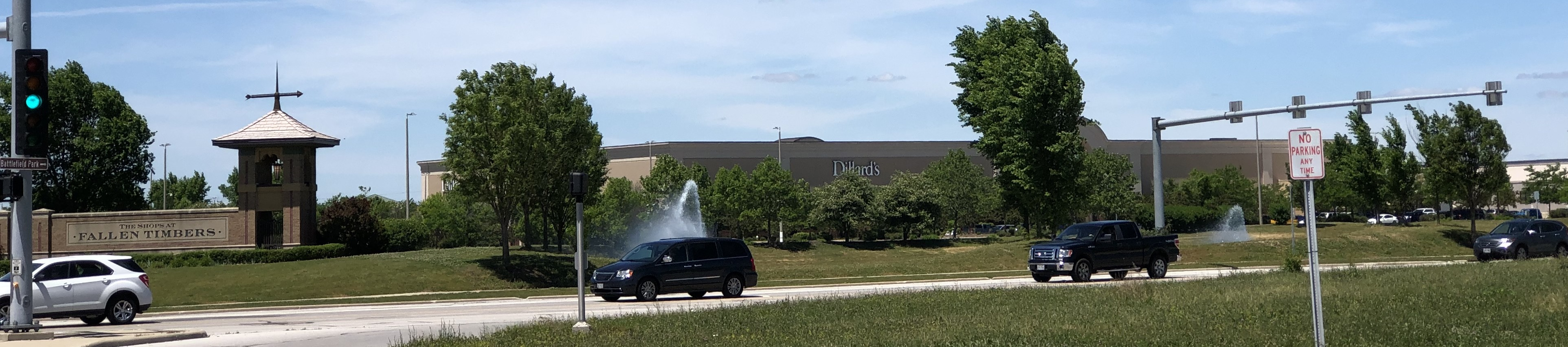 The Shops at Fallen Timbers in Maumee Ohio.